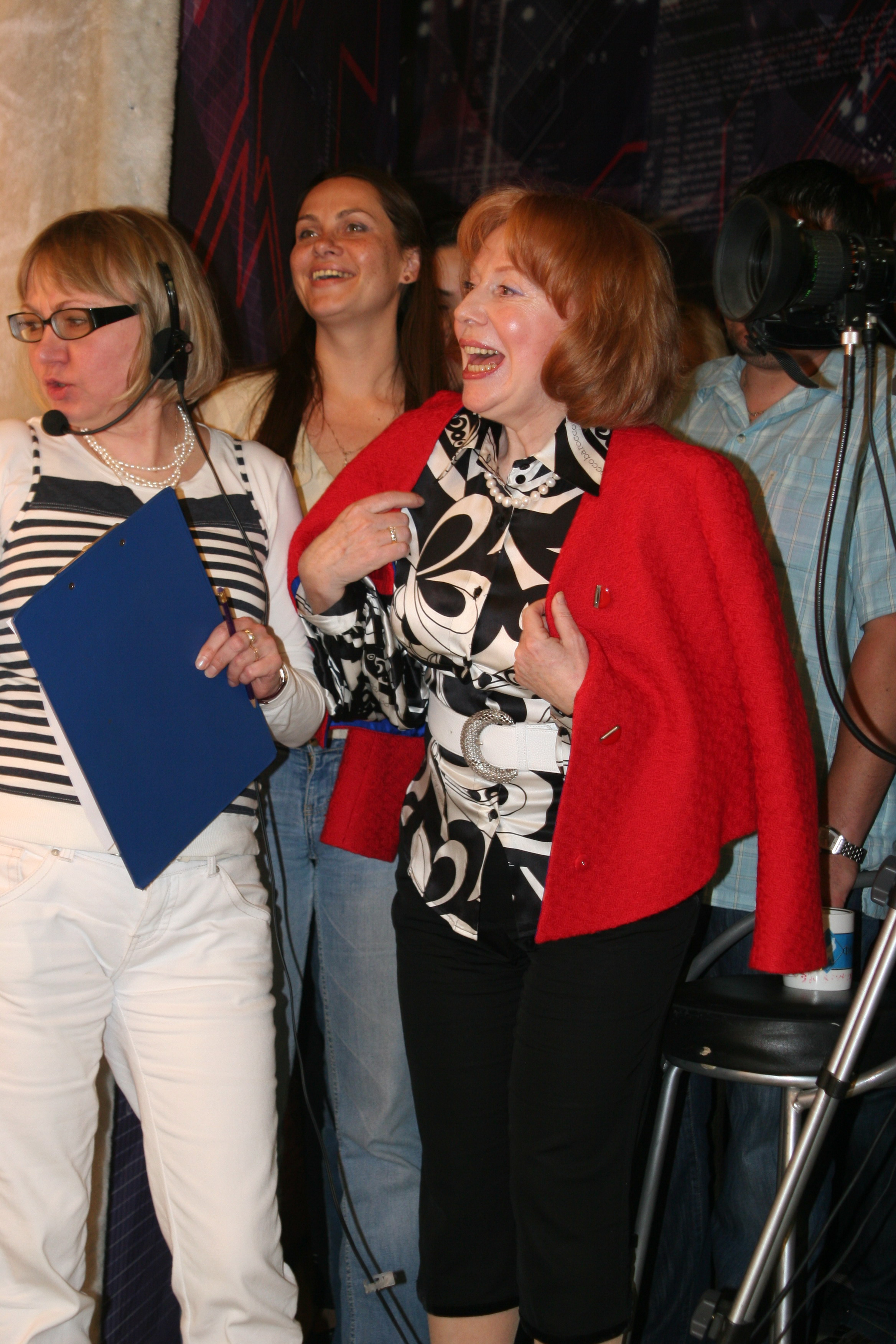 KIRA PROSHUTINSKAYA